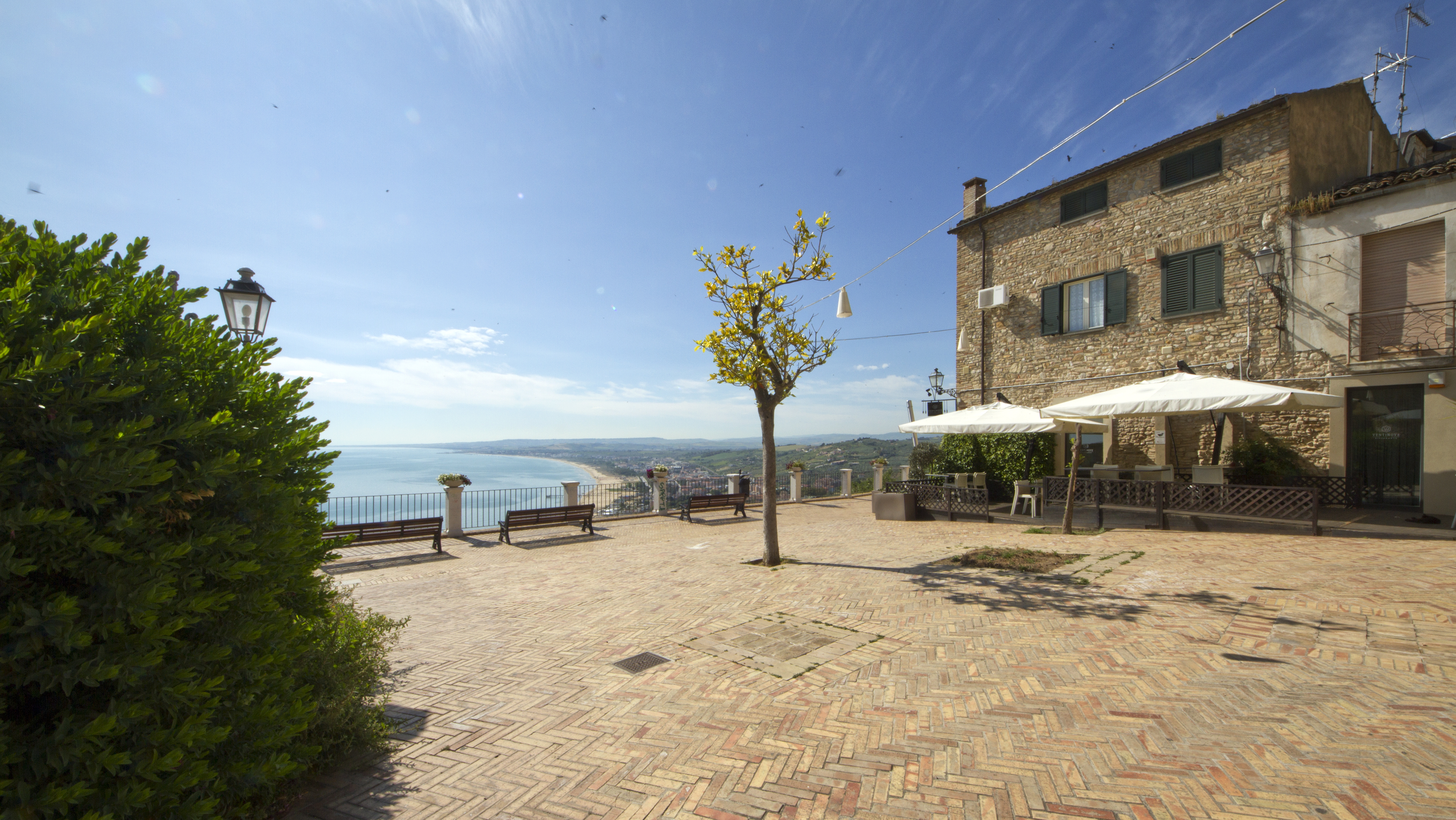 66054 Vasto, Province of Chieti, Italy